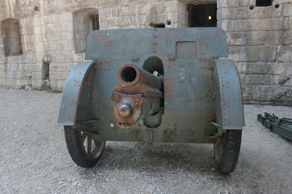 Skoda 10 cm M1914 in front of WWI fortress Forte Belvedere (Werk Gschwent), Lavarone, Trentino, Italy.